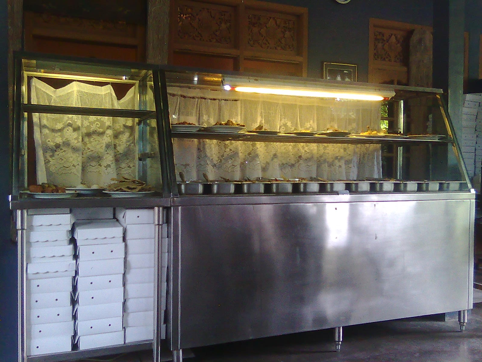 Warung Sulawesi, Bali